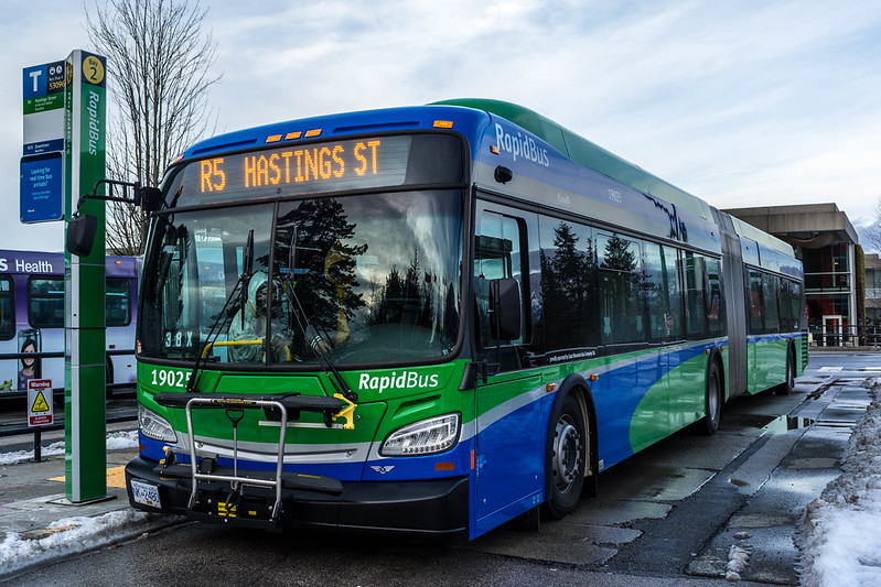 Translink 19025 on route R5 at SFU exchange getting ready to depart for Burrard Station